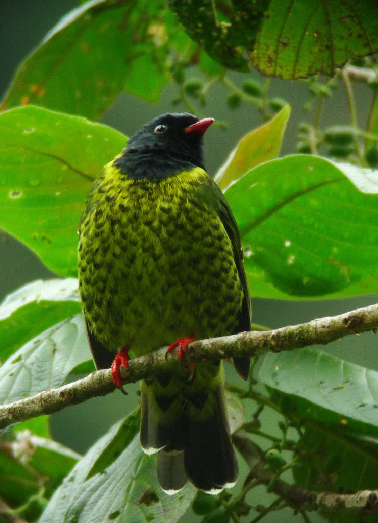 A Band-tailed Fruiteater in Junin, Peru.